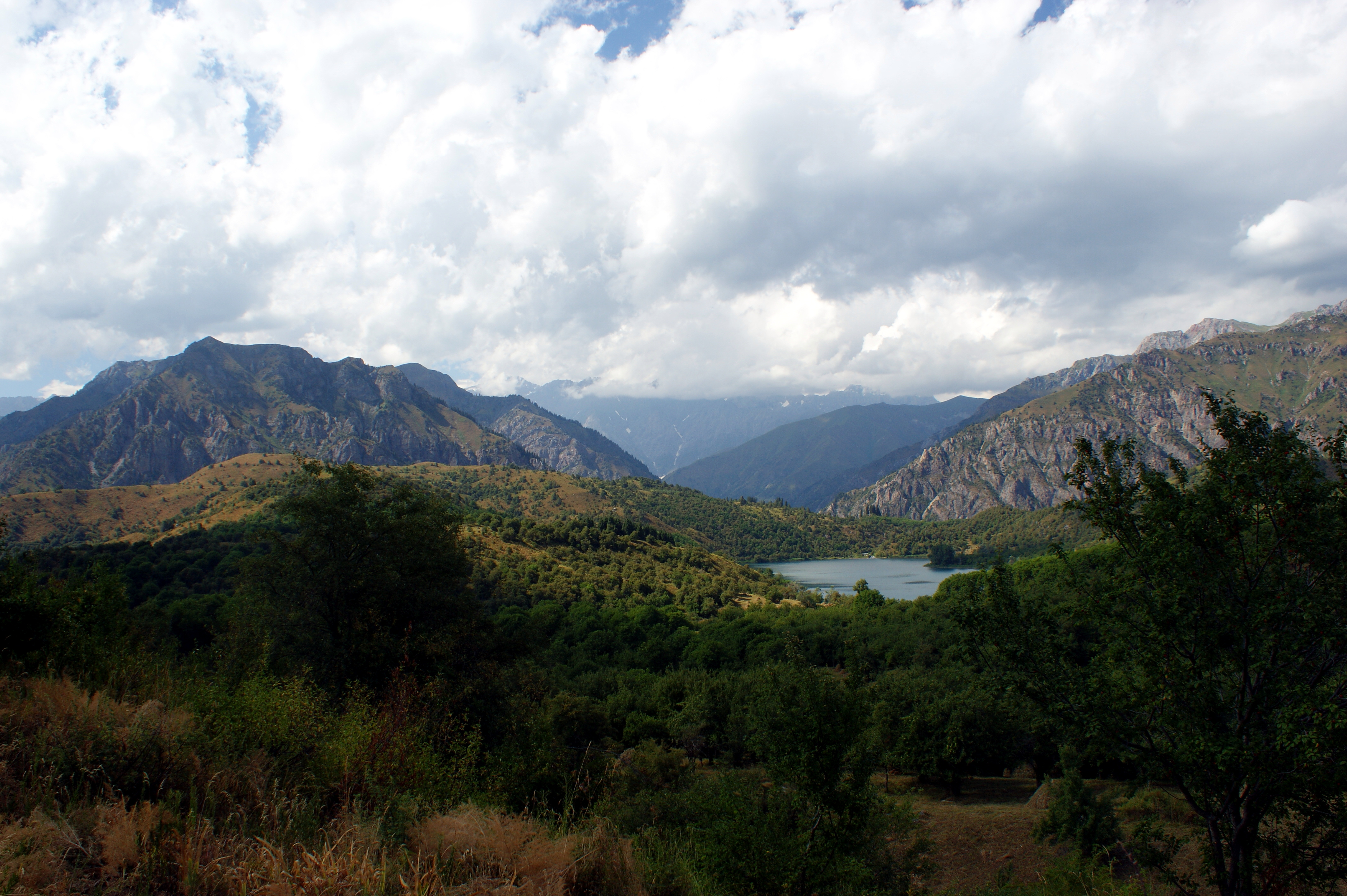 View over lake Кылс-Кёль in Sary Chelek Nature Reserve